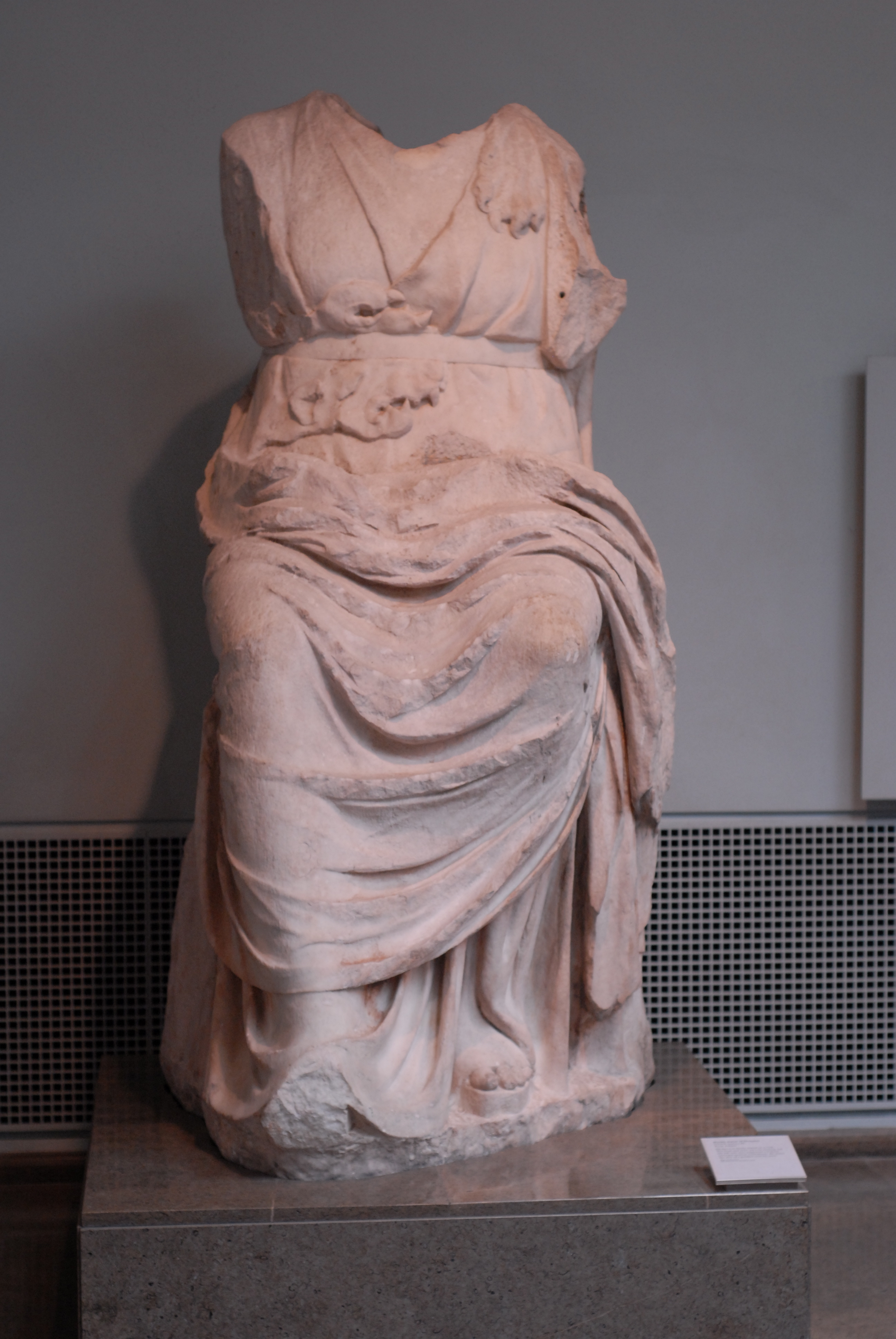 Seated Dionysos, from the Choregic monument of Thrasyllos, Athens c.270 BC.